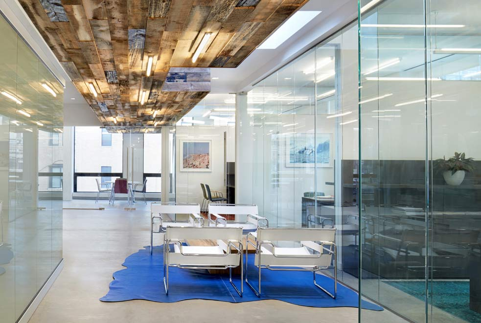 Inside